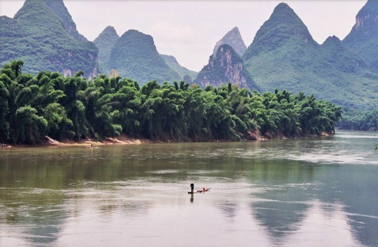 Yangshuo - the Li River. That's bamboo lining the river.